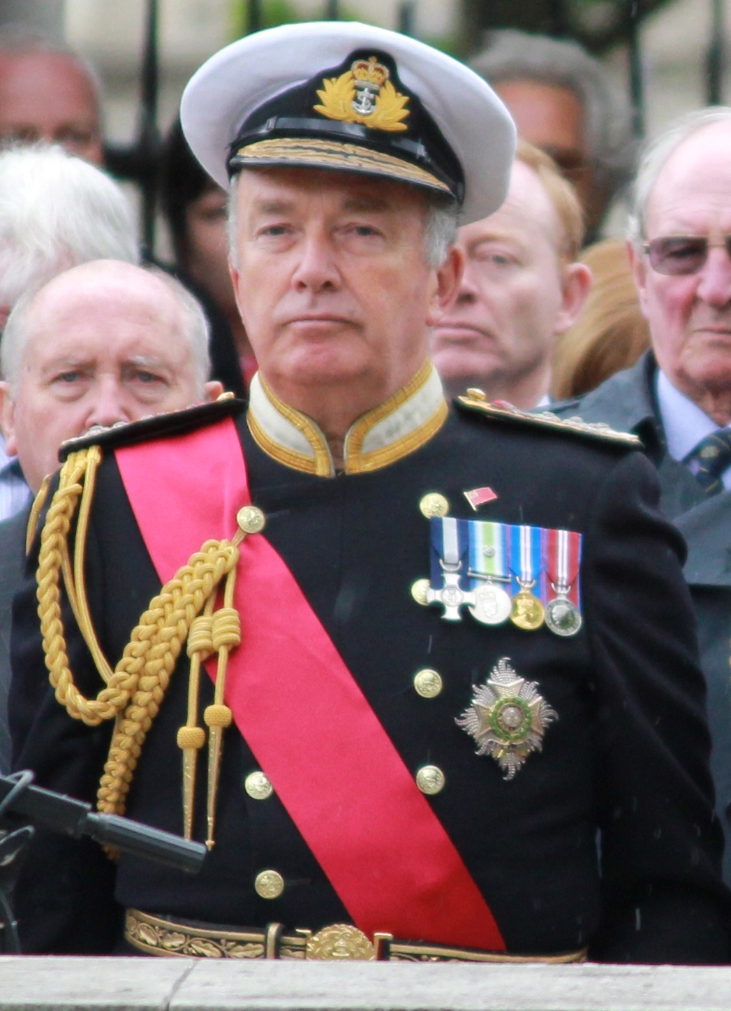 Former First Sea Lord Admiral the Right Honourable Baron West of Spithead GCB DSC PC ADC at the 2013 Merchant Navy Day Commemorative Service and Reunion at Trinity Square Gardens.